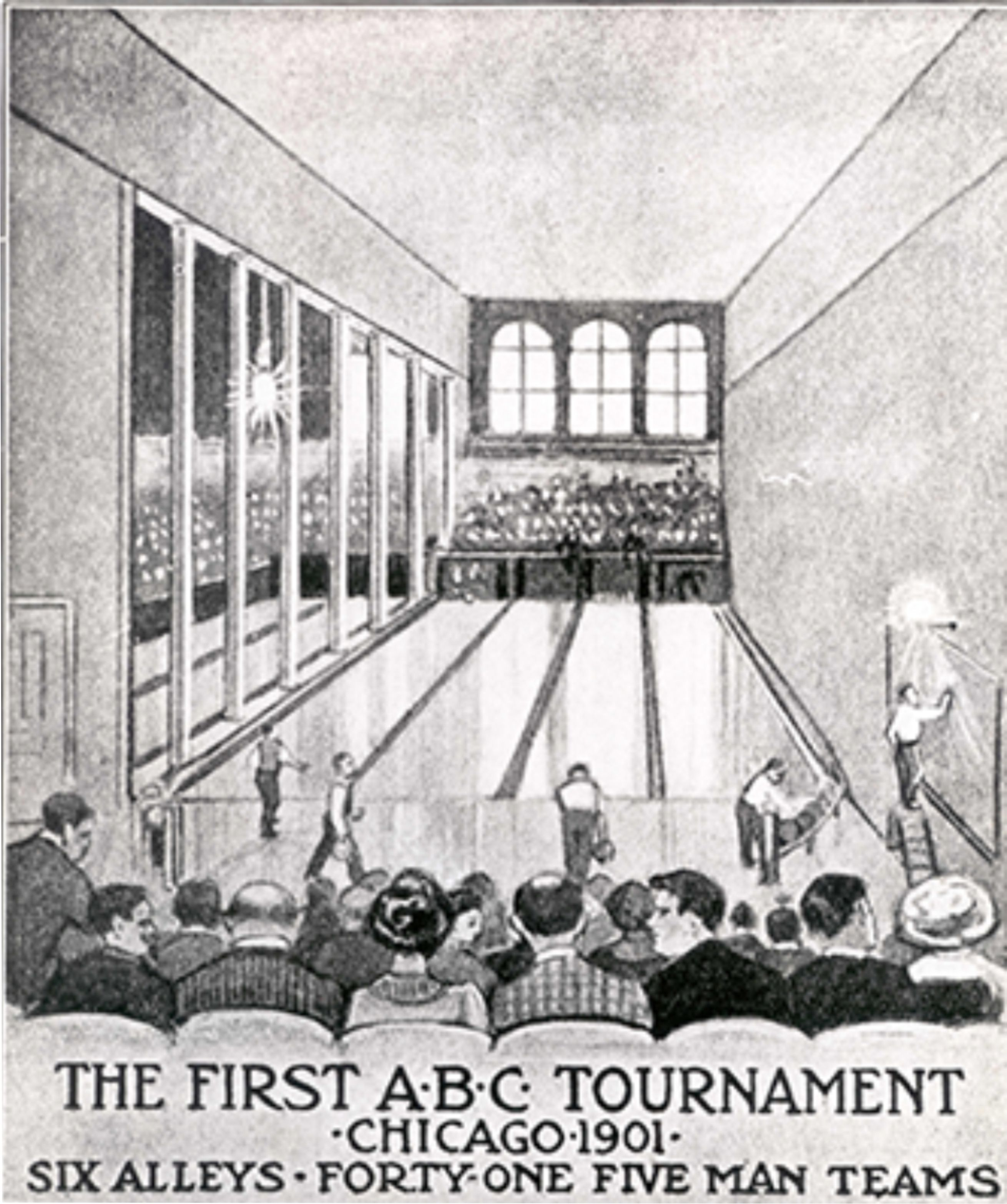 Poster of the first bowling competition, Chicago, 1901